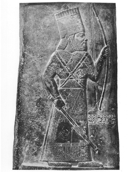 Kudurru BM 90841 of the time of Marduk-nādin-aḫḫē